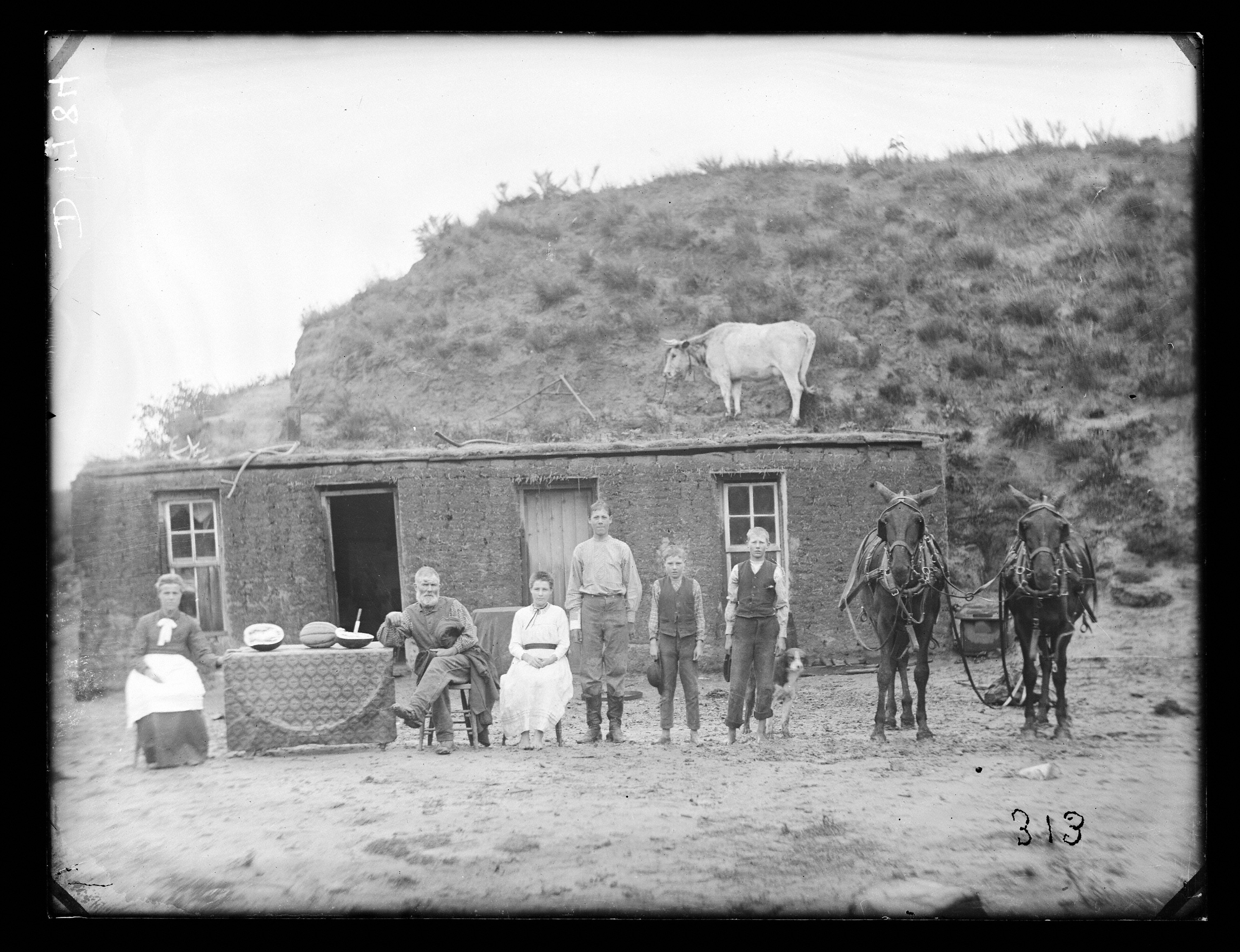 Sylvester Rawding family sod house